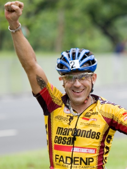 Brazilian road cyclist Daniel Rogelim after the 2008 Copa America.